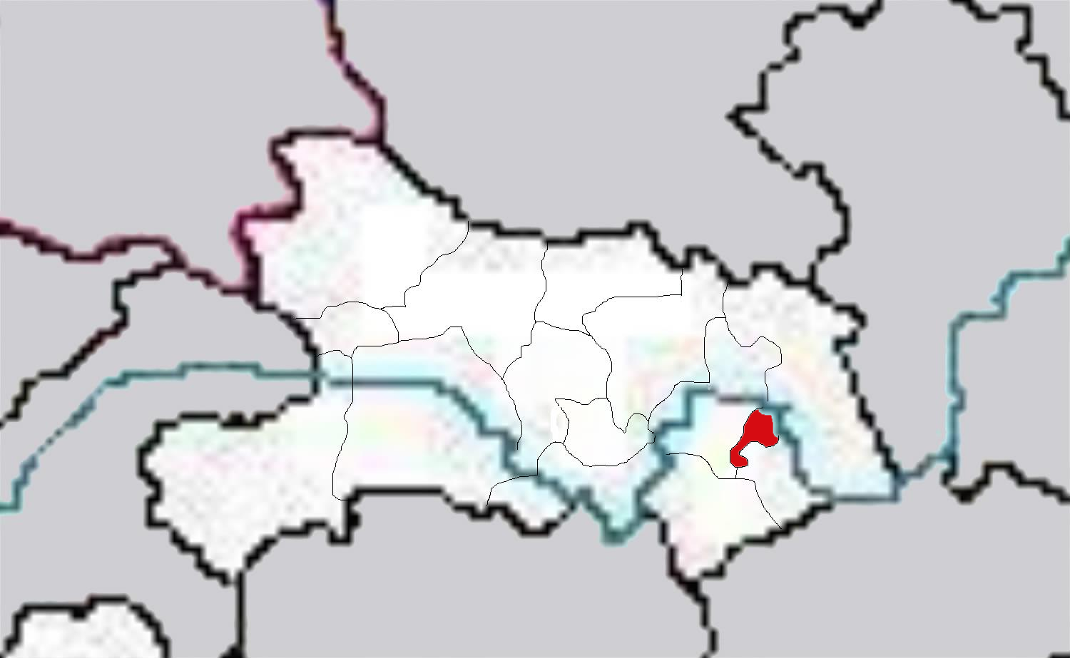 Maps of Hubei Province of China